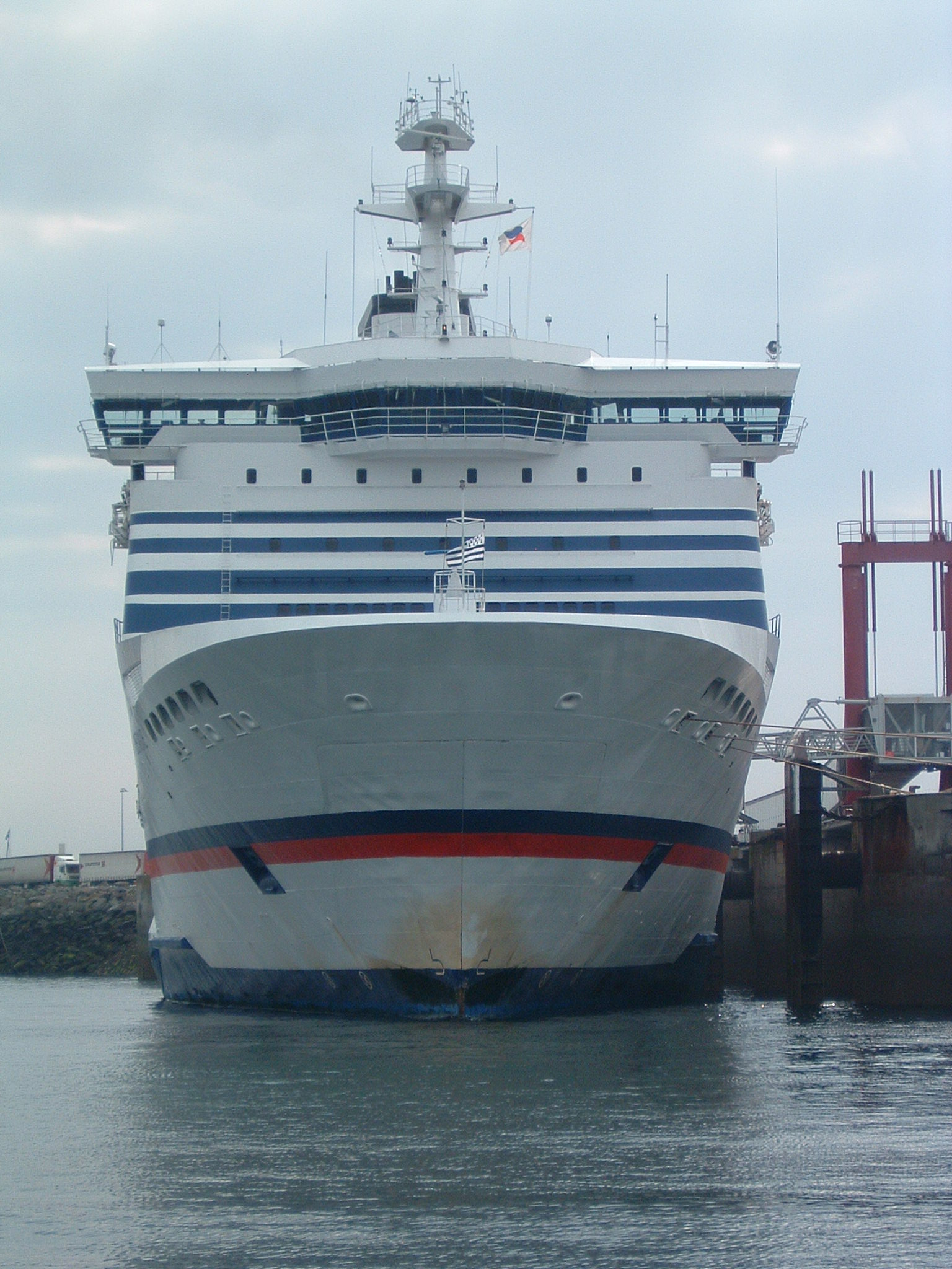 Ferry boat (M/S Bretagne) alongside, seen from bow. IMO Number: 8707329 MMSI Number: 227286000 Callsign: FNBR Length: 153 m Beam: 26 m